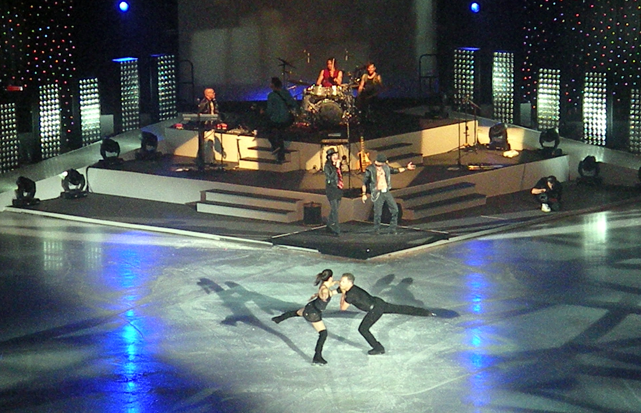 Jamie Salé and David Pelletier perform in front of a live band during the ice show at the 2011 Calgary Stampede.